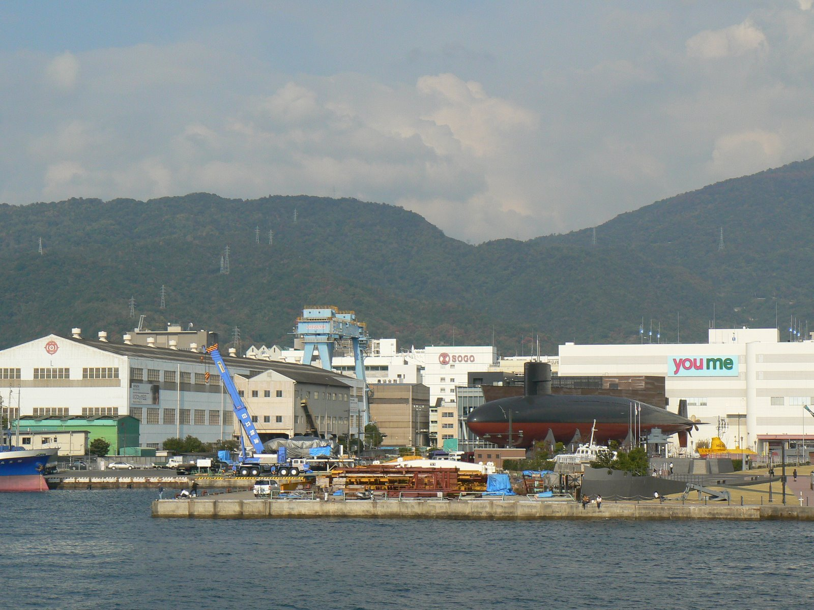 呉 Kure City Hiroshima